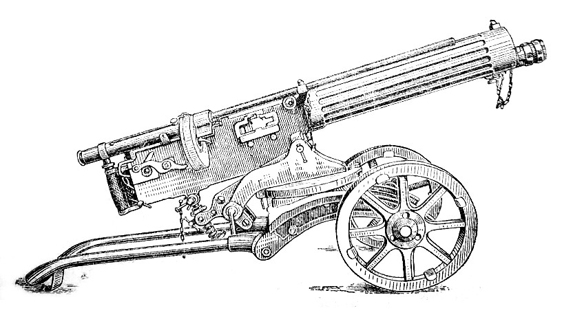 Blume 5.6 mm machine gun, mounted on Maxim gun for traning purposes